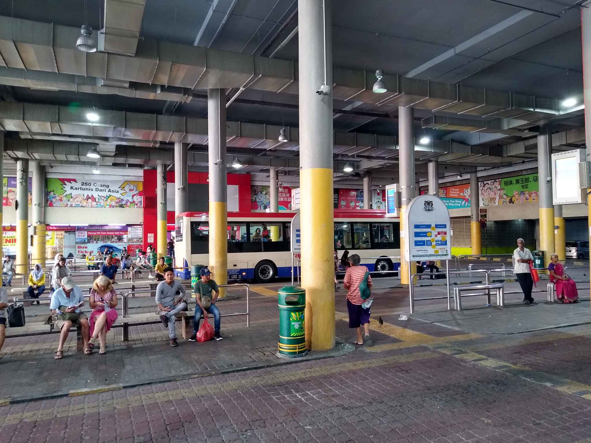 Komtar Bus Terminal in January 2020.